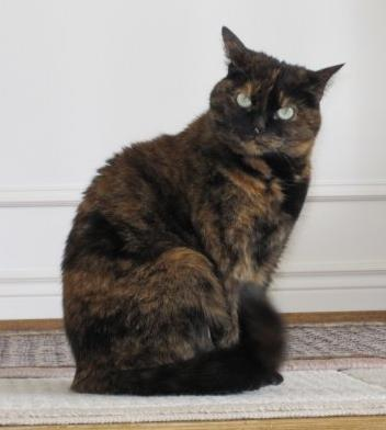 A 6-year old tortoise shell cat.